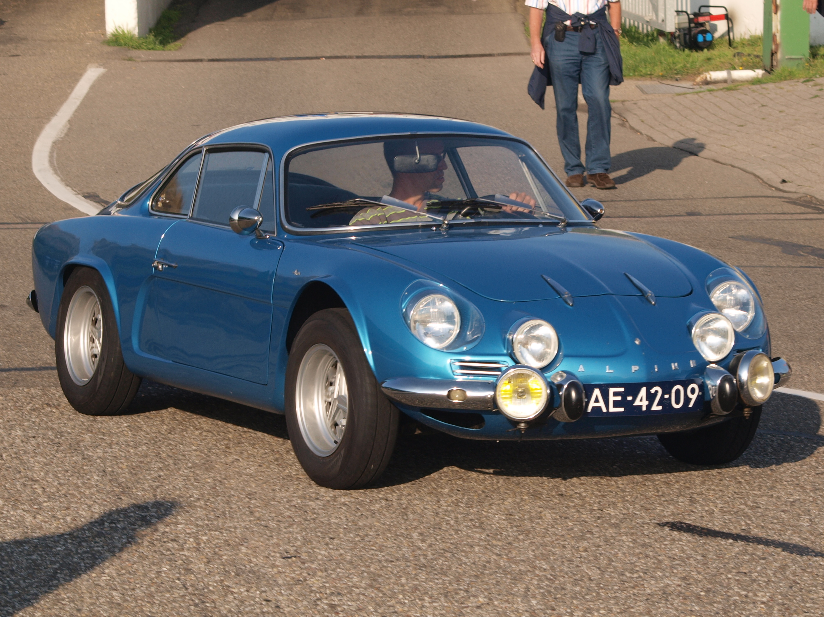 Photographed at the Nationaal Oldtimer Festival Zandvoort 2009, The Netherlands. OLYMPUS DIGITAL CAMERA